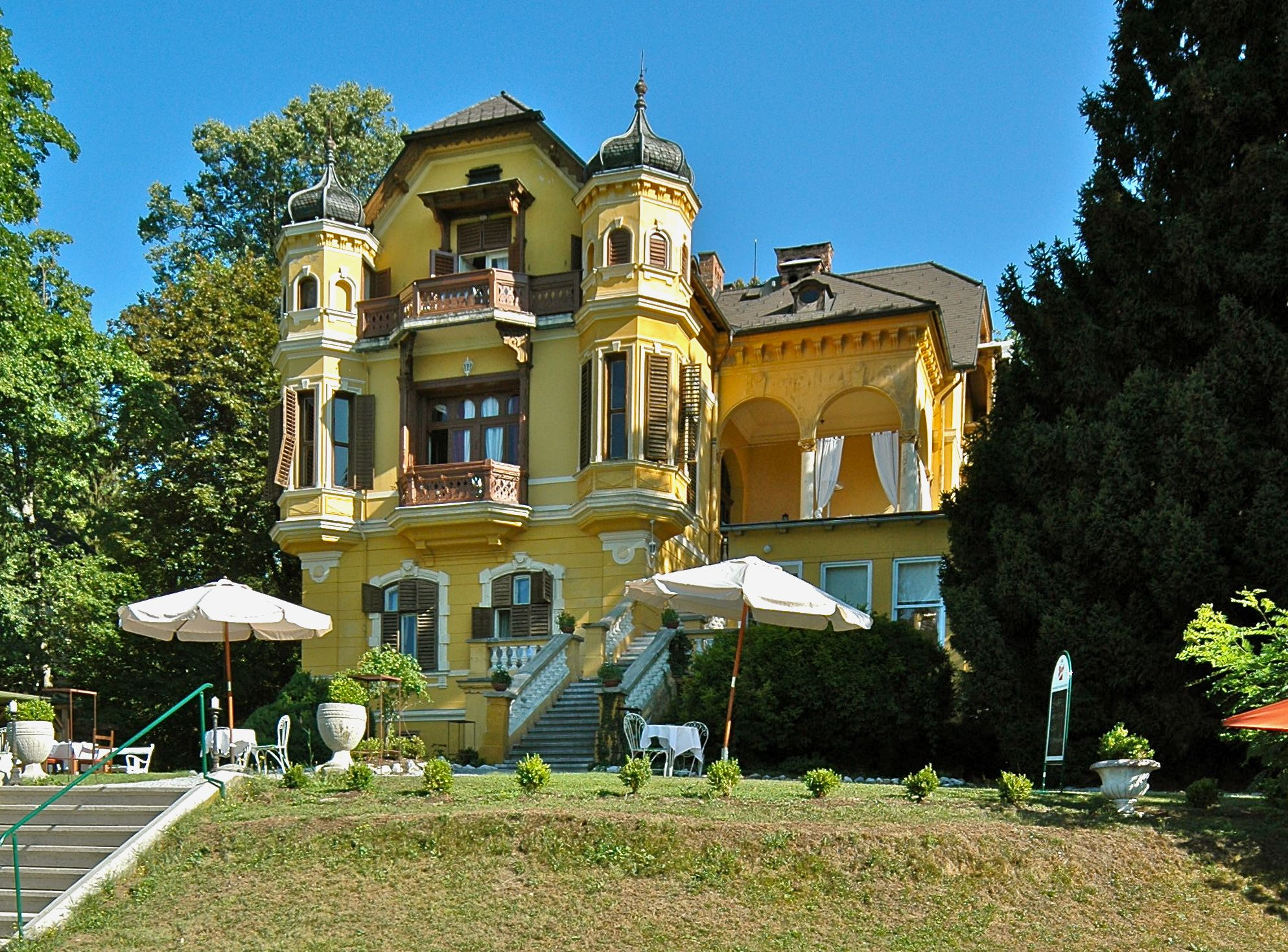 Villa Miralago, former Villa “Lugg in See”, Villa Ludwig Urban, designed 1892 by architect Carl Langhammer, Main Street #129, municipality Poertschach on the Lake Woerth, district Klagenfurt Land, Carinthia / Austria / EU